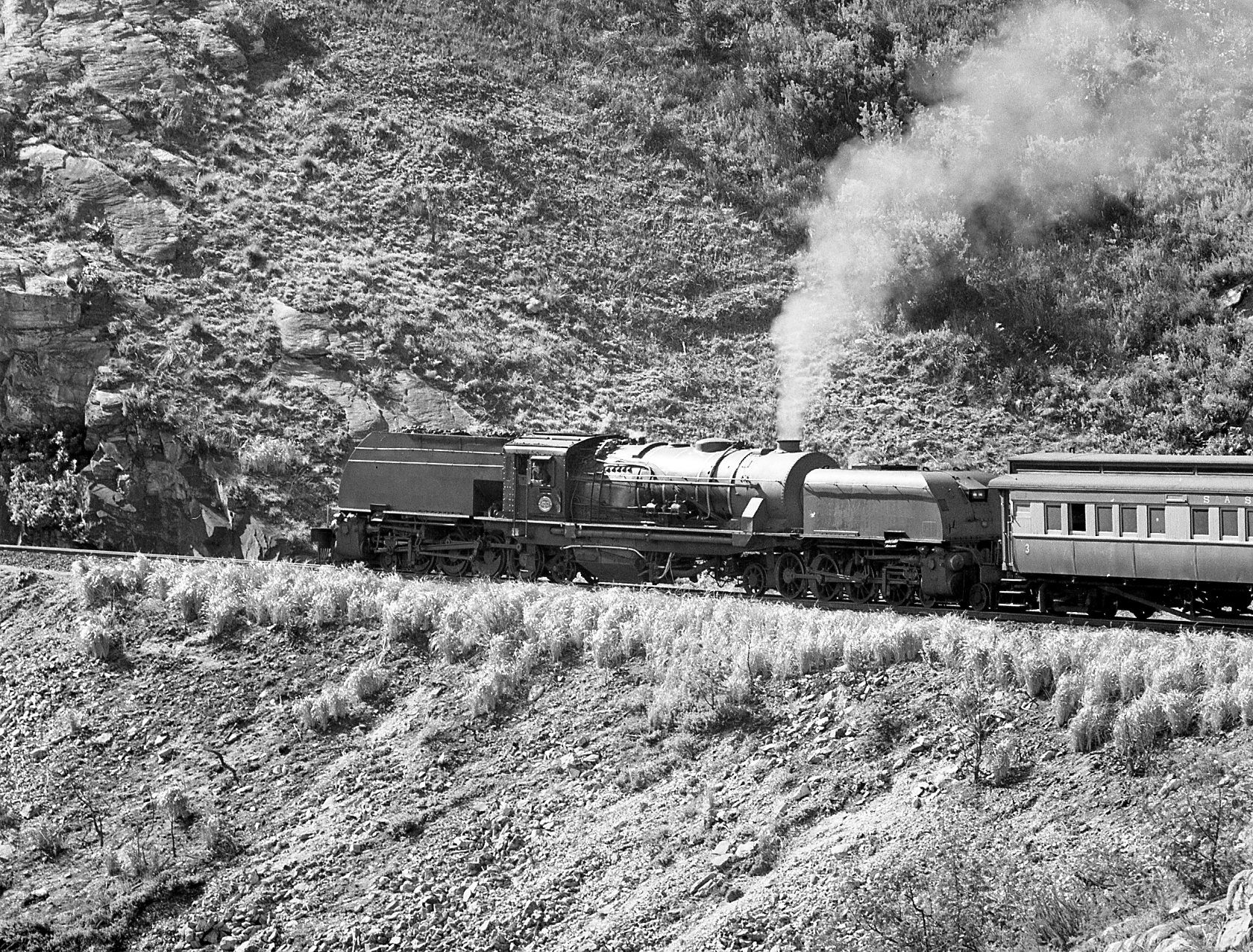 Class GEA 4013 (4-8-2+2-8-4)Location: Montagu Pass, Western Cape